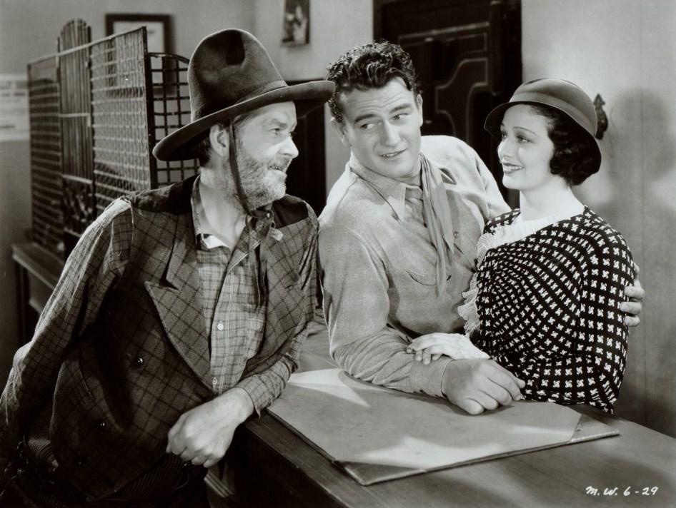 Left to right: George 'Gabby' Hayes, John Wayne, and Eleanor Hunt in the American film Blue Steel (1934) - cropped screenshot.